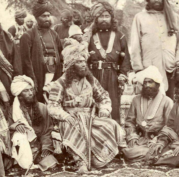 Mir Khudadad Khan Baloch with Baloch Chiefs